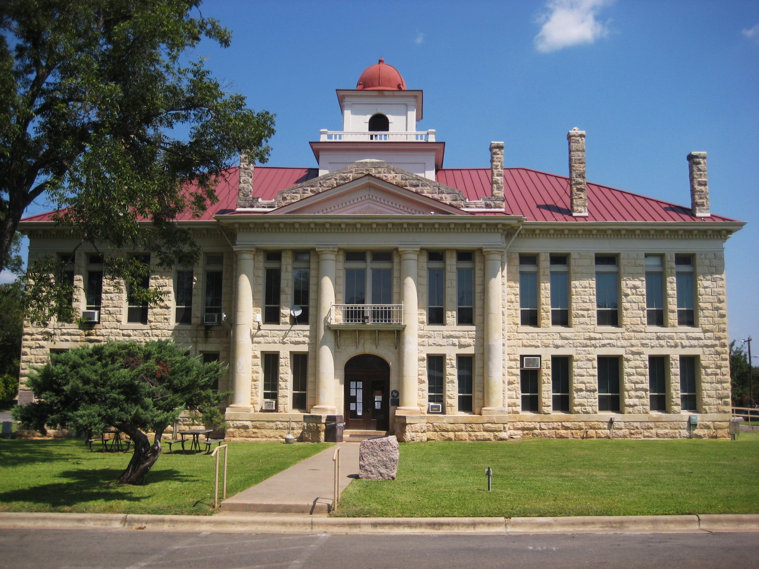 Blanco County Courthouse at Johnson City, Texas. The classical revival limestone structure, was built in 1916.